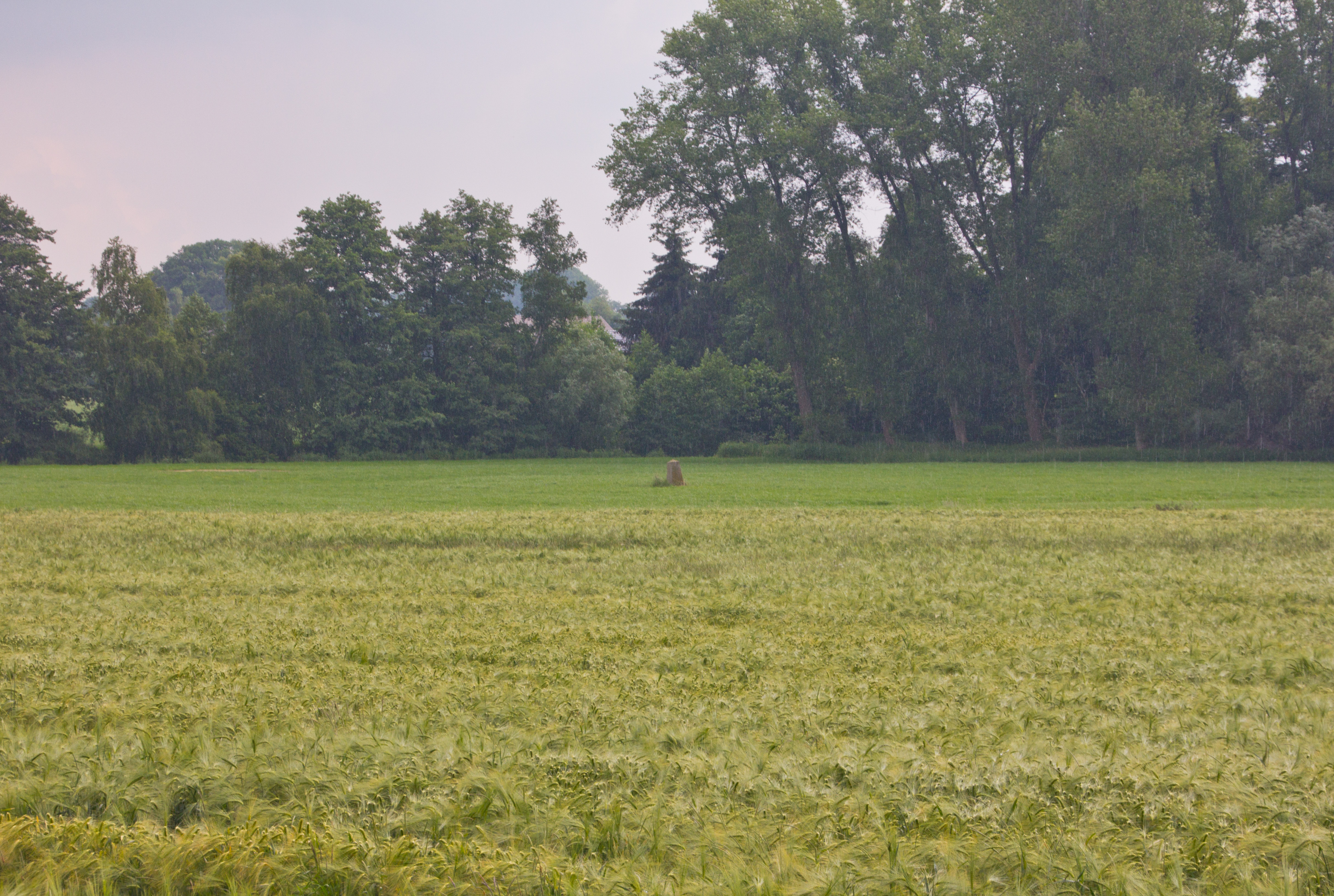 At the place of the obelisk was the former Gut Wallenbrück